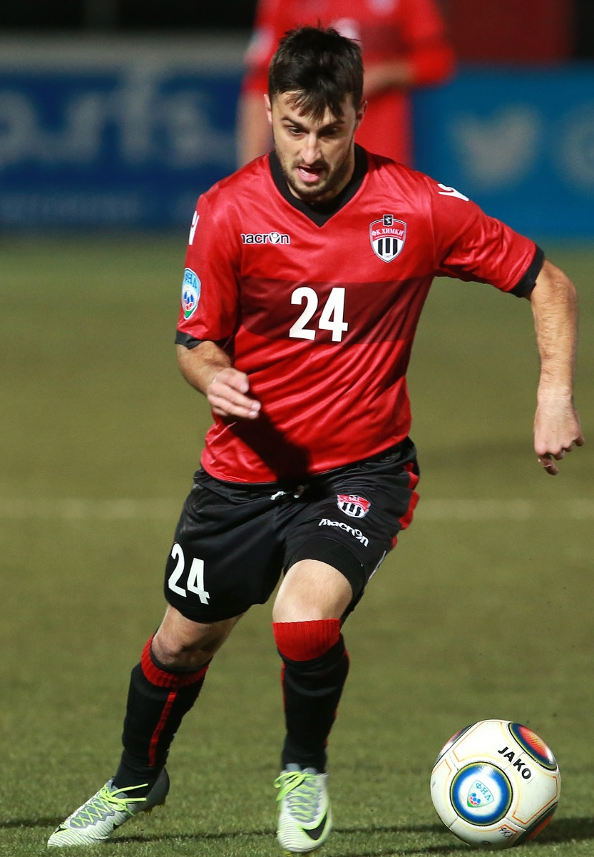 Goran Galešić with FC Khimki in a game against FC Lokomotiv Moscow.